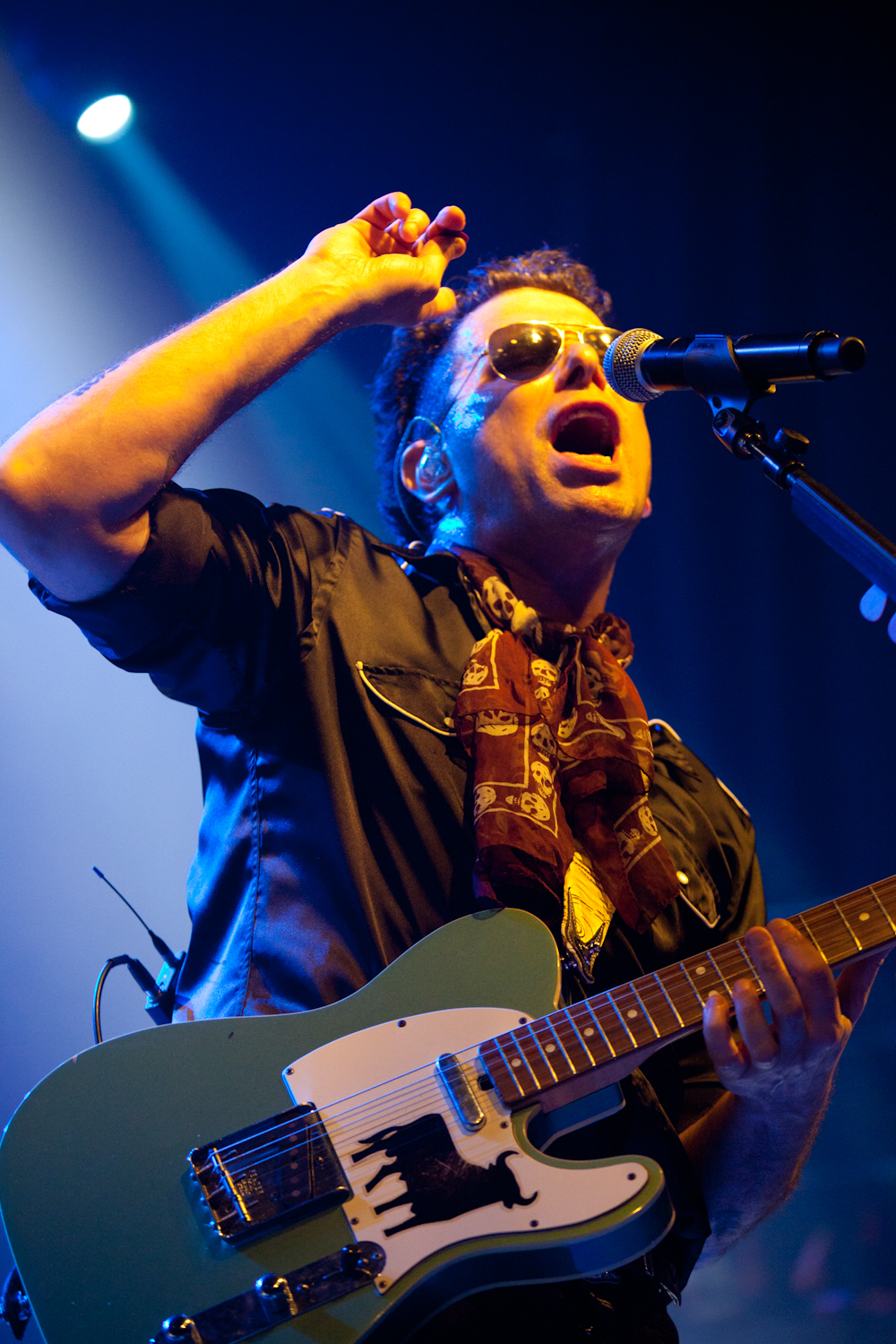 Andrés Calamaro live in the Razzmatazz, Barcelona, Spain.